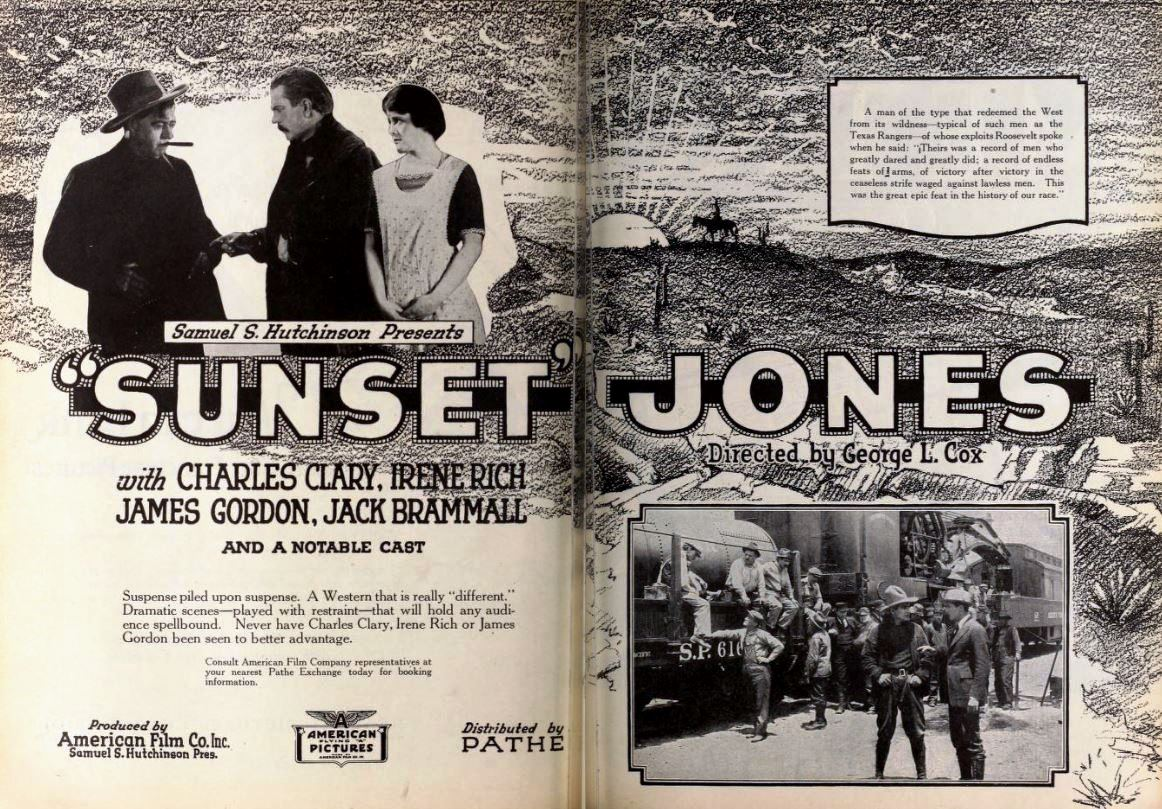 Advertisement for the American western film Sunset Jones (1921) with James Gordon, Charles Clary, and Irene Rich, on pages 16 and 17 of the February 12, 1921 Exhibitors Herald.